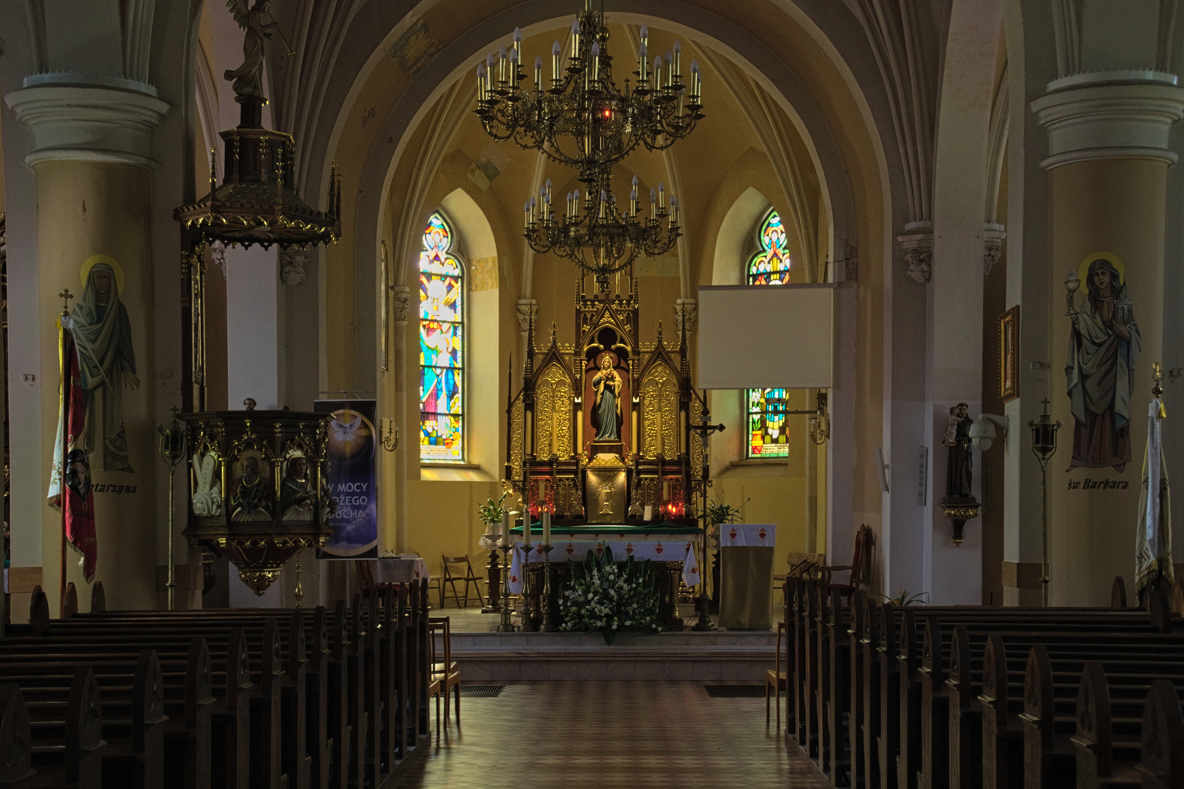 Saint Elisabeth of Hungary church in Jaworzno interior